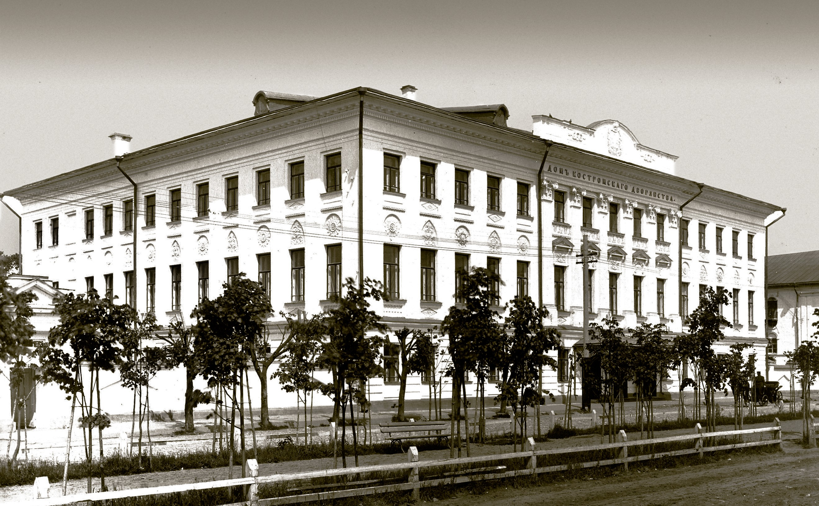 Kostroma Noble Assembly. Beg. XX cent.